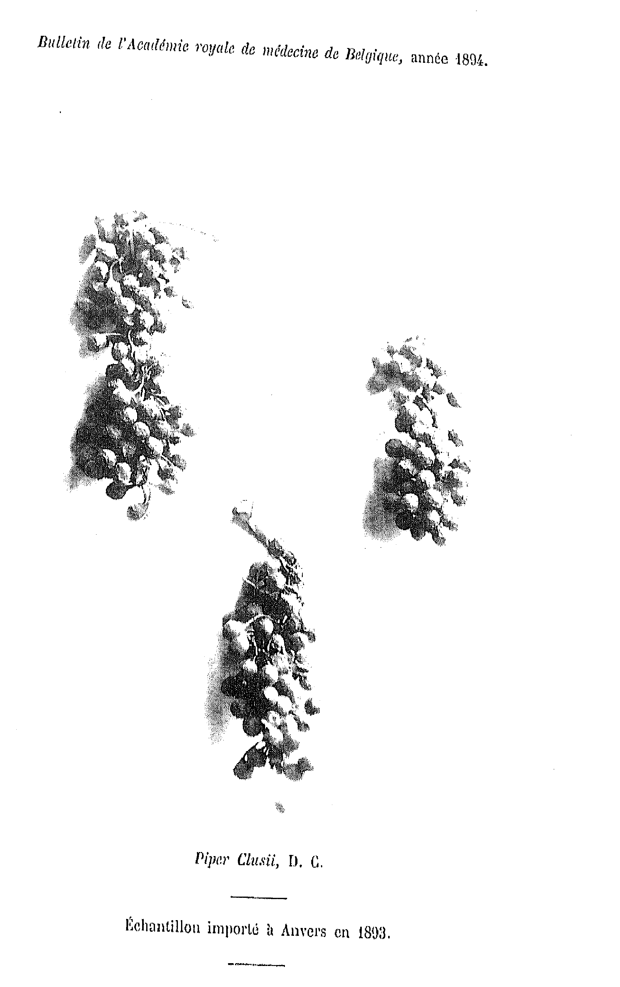 Samples of Piper clusii (West Afrifcan pepper) imported to Belgium from the Belgian Congo in 1895.